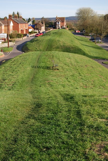 Wareham Town Wall, west Part of the Anglo-Saxon walls surrounding the town